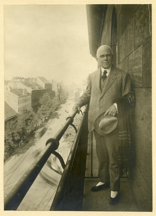 Stewart Culin, circa 1920. Brooklyn Museum Archives, Culin Archival Collection.